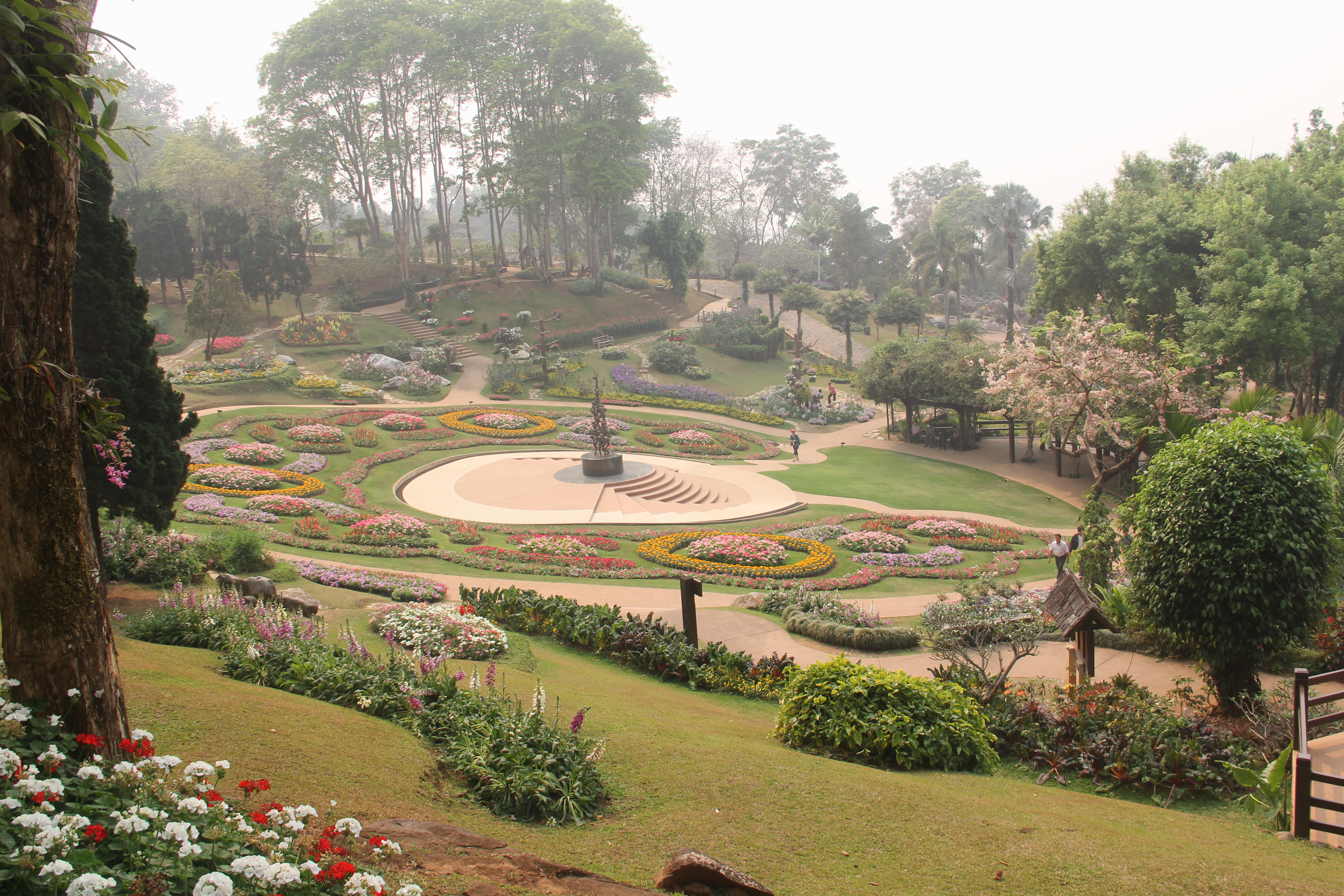 Mae Fah Luang Garden